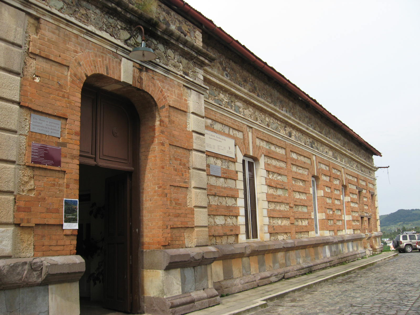 Entrance to the Ex-hospital Minero-Museo de Medicina Laboral (Ex Miner's Hospital-Museum of Workplace Medicine) in Real del Monte, Hidalgo State, Mexico